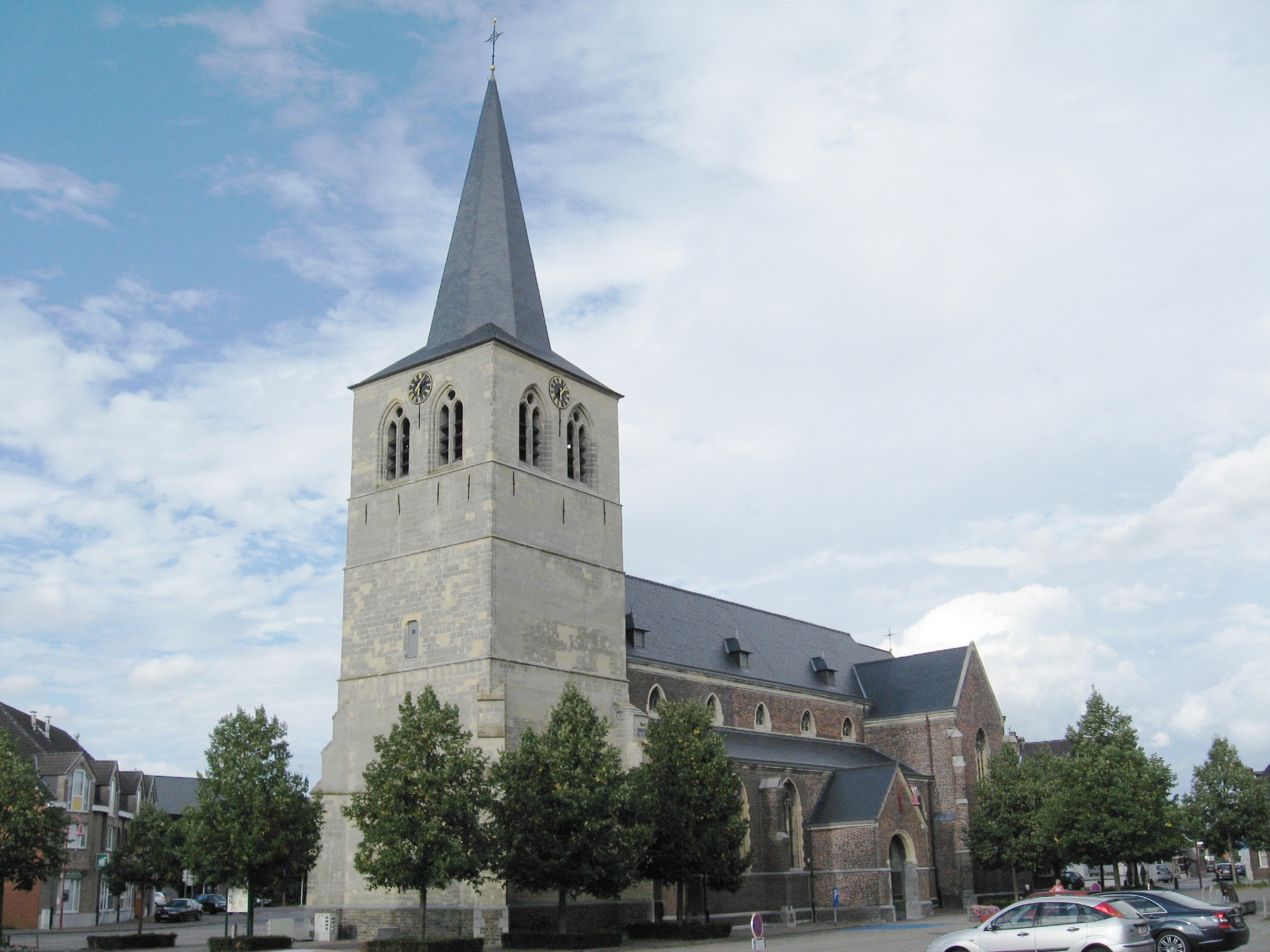 Church of Saint Lawrence in Bocholt, Limburg, Belgium